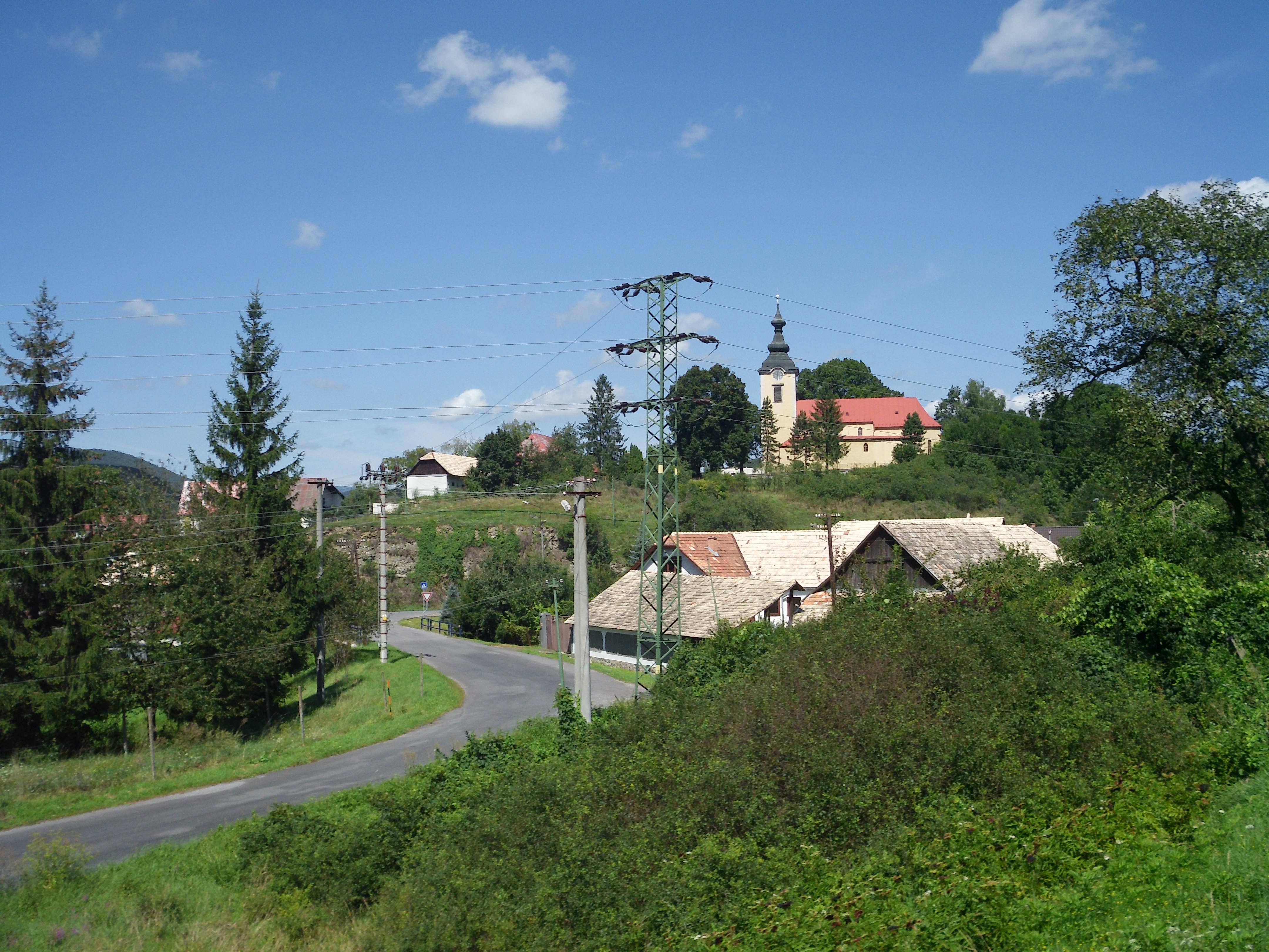 The center of Hontianske Nemce, Slovakia, as seen from a charter train.